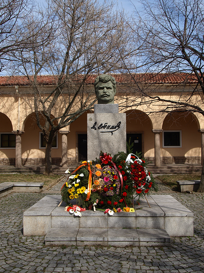 The Monument to Aleksandar Stamboliyski in Slavovitsa, Bulgaria